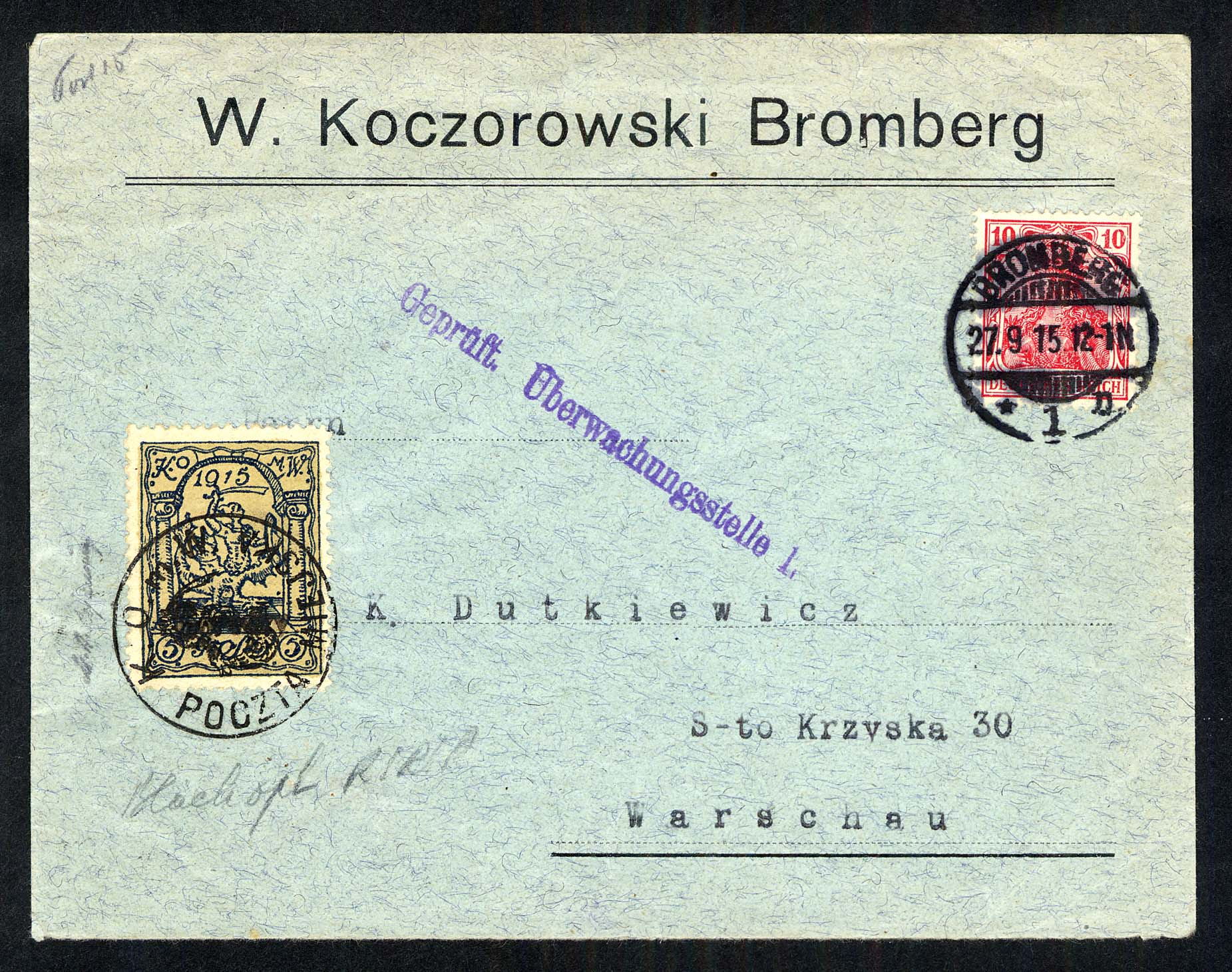 Warsaw Local Post 1915 Cover, scanned December 2009 by User:JPKos